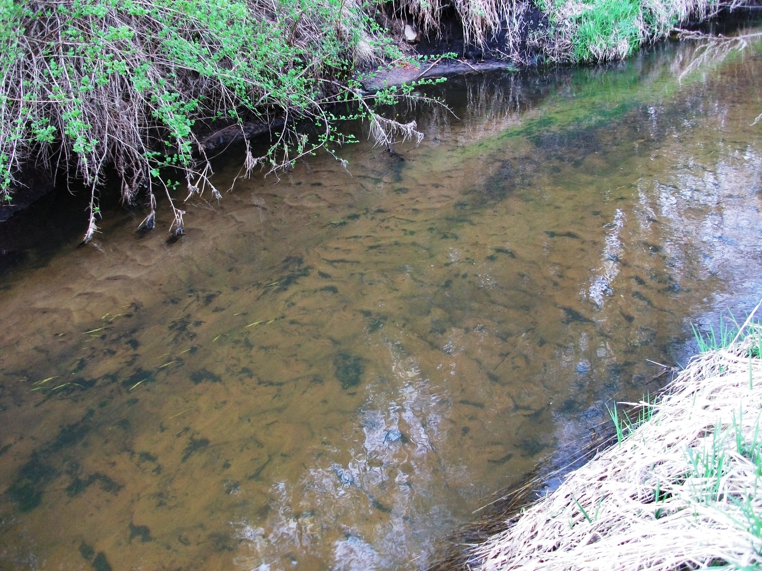 Transparent water of Pelyaka river